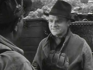 screenshot of James Cagney from the film White Heat